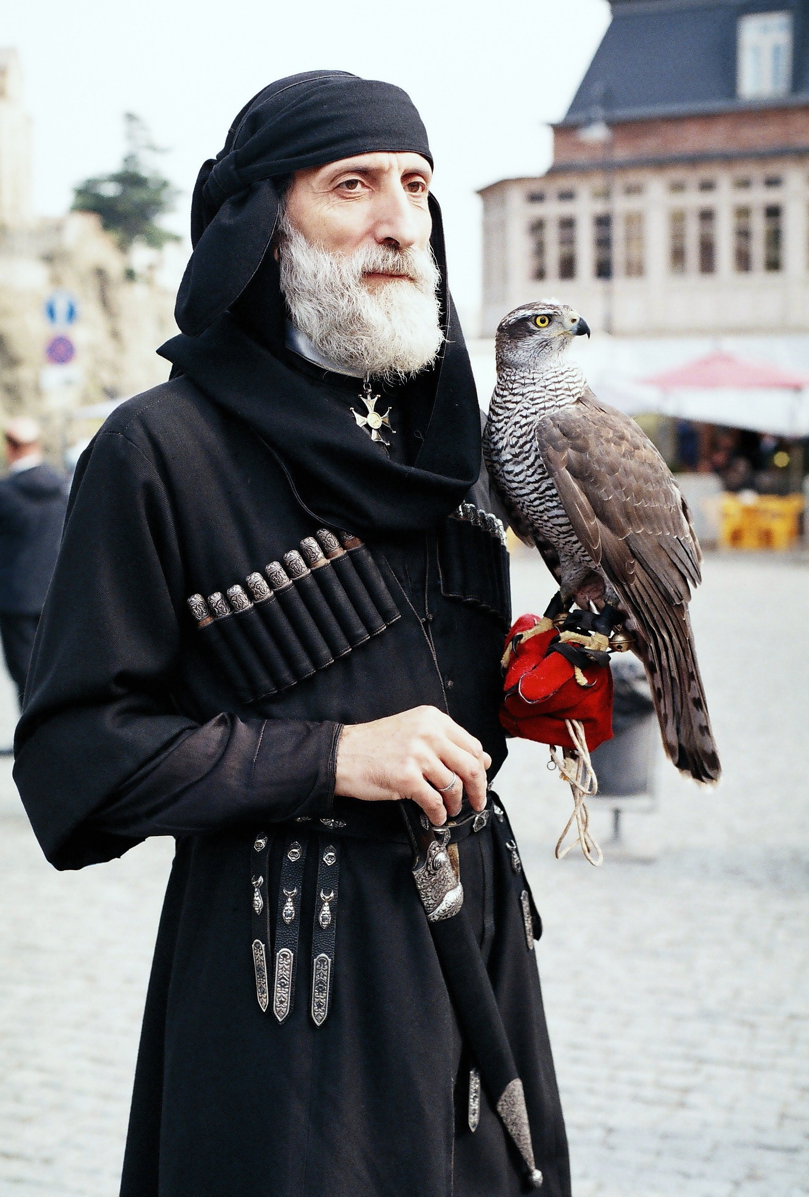 Georgian man with falcon wearing Chokha on Tbilisoba festival.